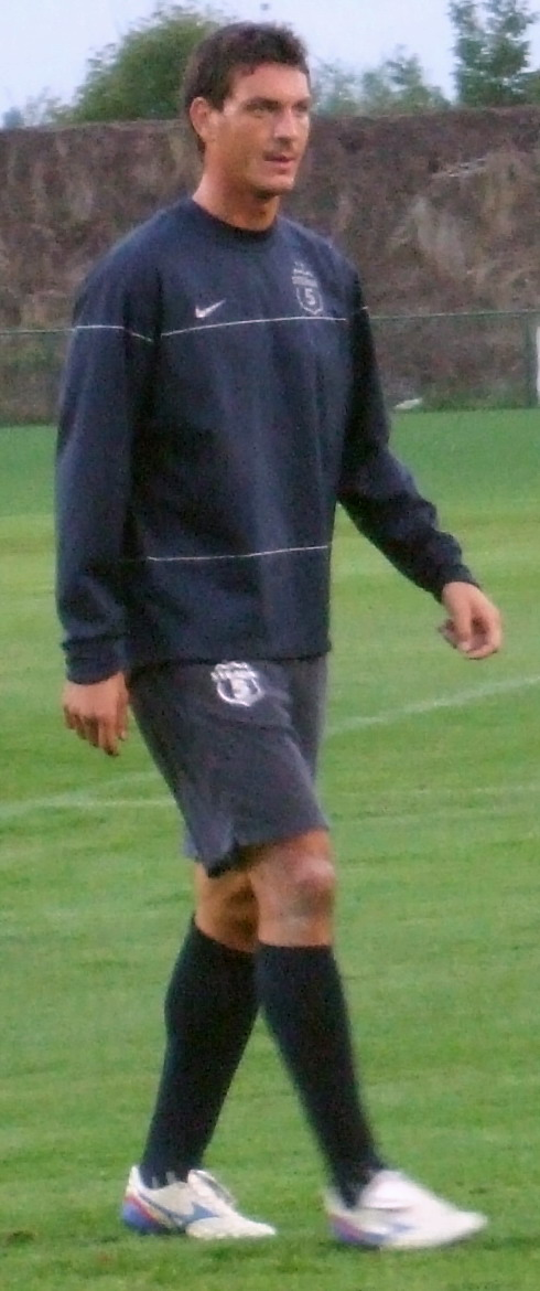 Ionut Rada